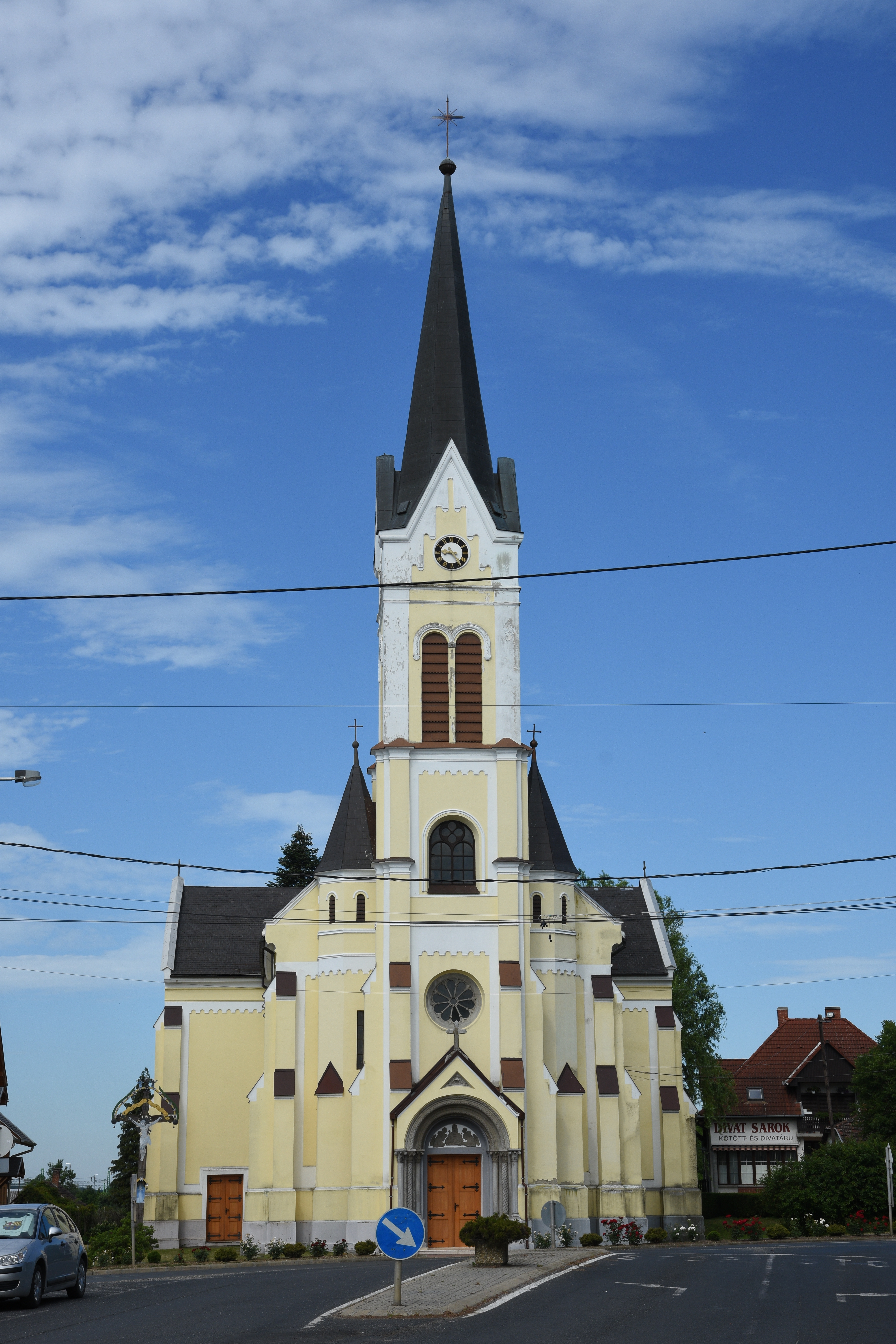 Saint Ladislaus Church, Zalalövő